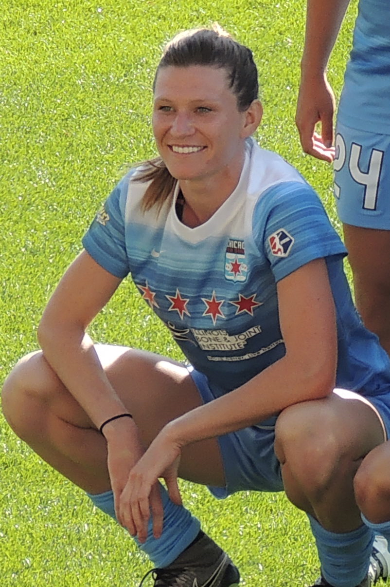 June 12 2016 - Chicago Red Stars starting lineup against Portland Thorns FC